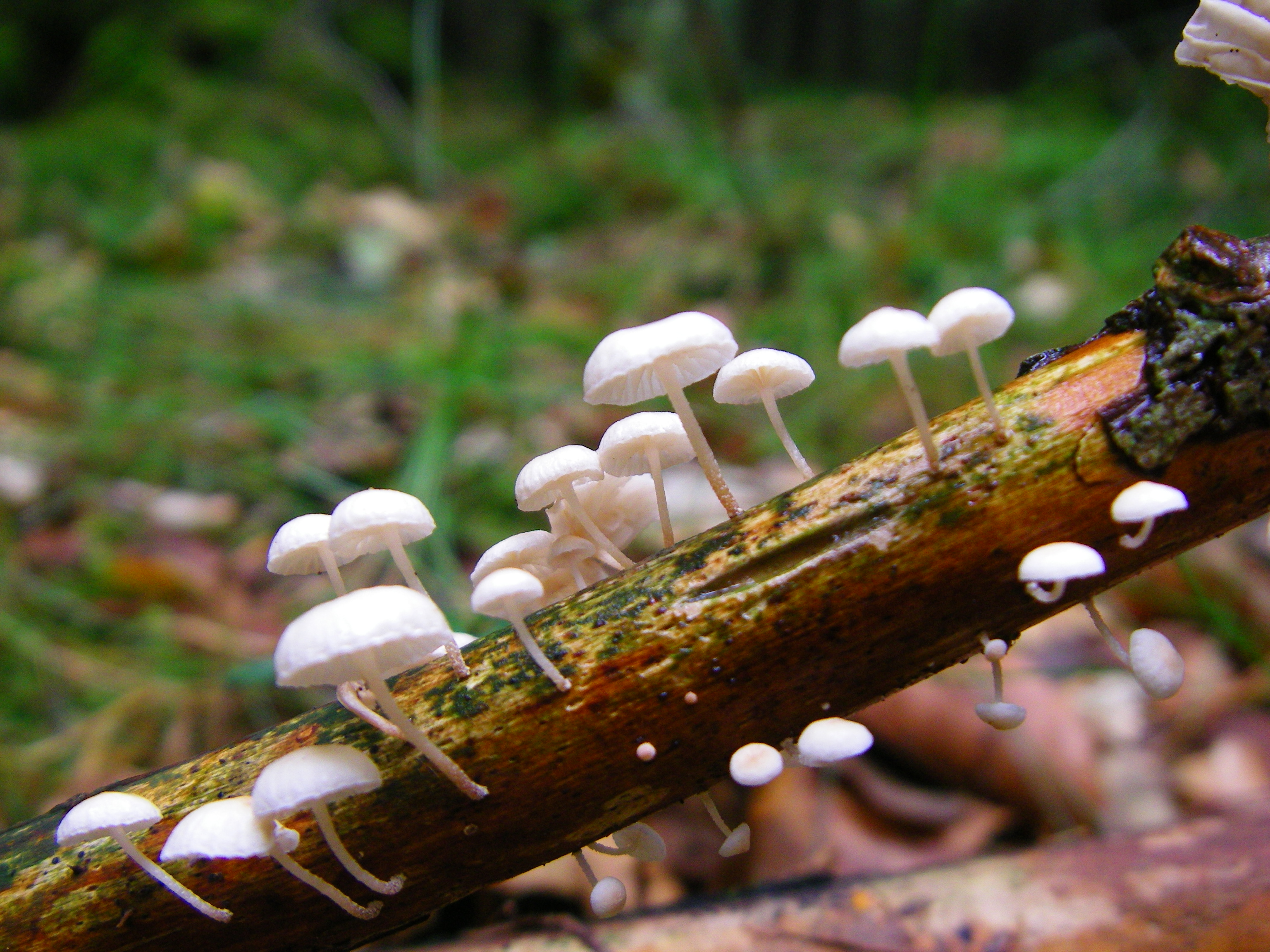 The making of this document was supported by the Community-Budget of Wikimedia Germany.